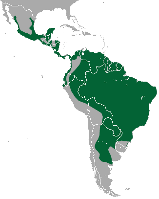 Jaguarundi (Puma yagouaroundi) range